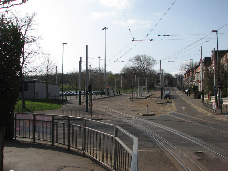 The Forest tram stop. The tracks in the foreground cross Gregory Boulevard, with Noel Street and the climb up Mount Hooton Road straight ahead. The edge of the park-and-ride car park is to the left of the tram stop.